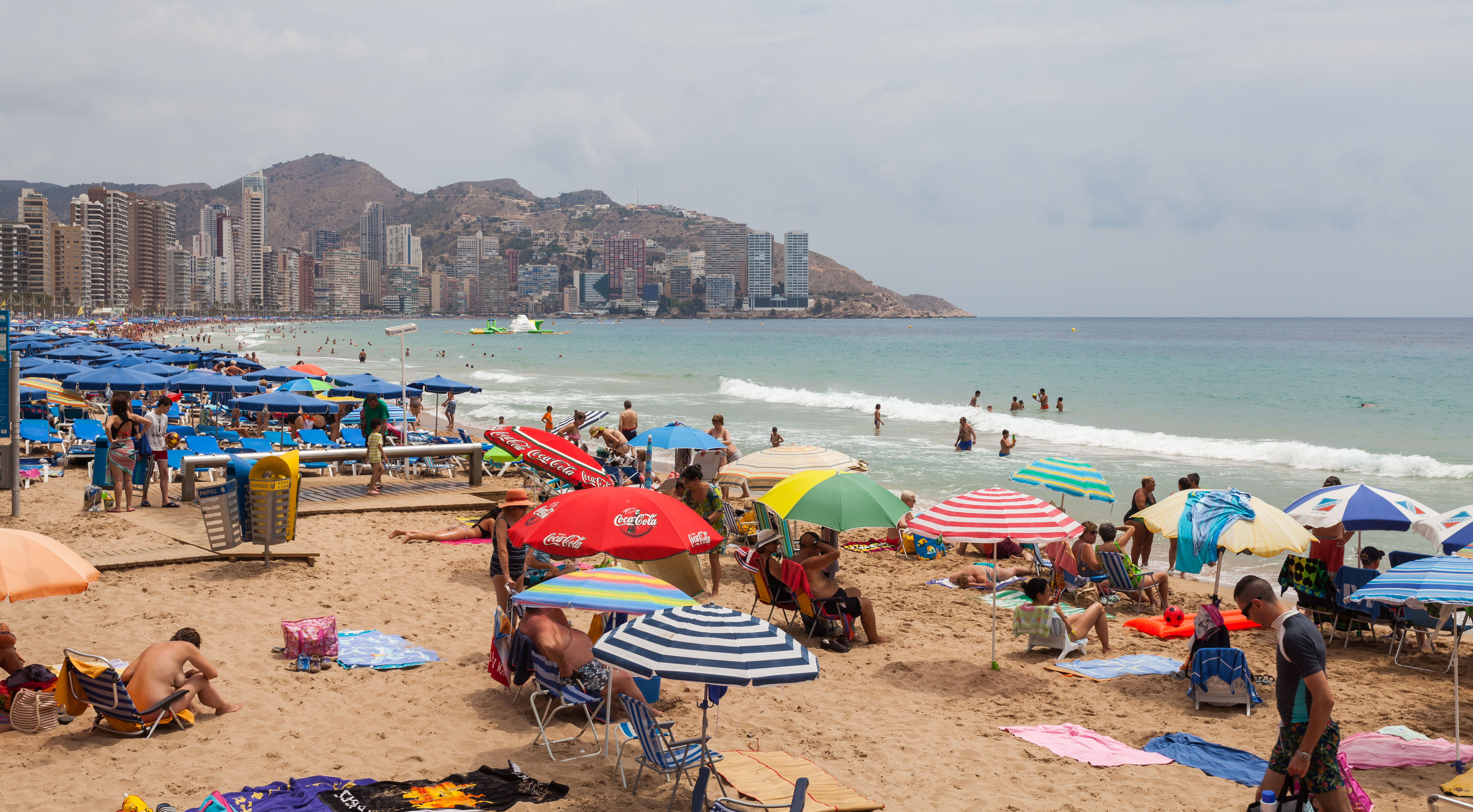 Levante beach, Benidorm, Spain